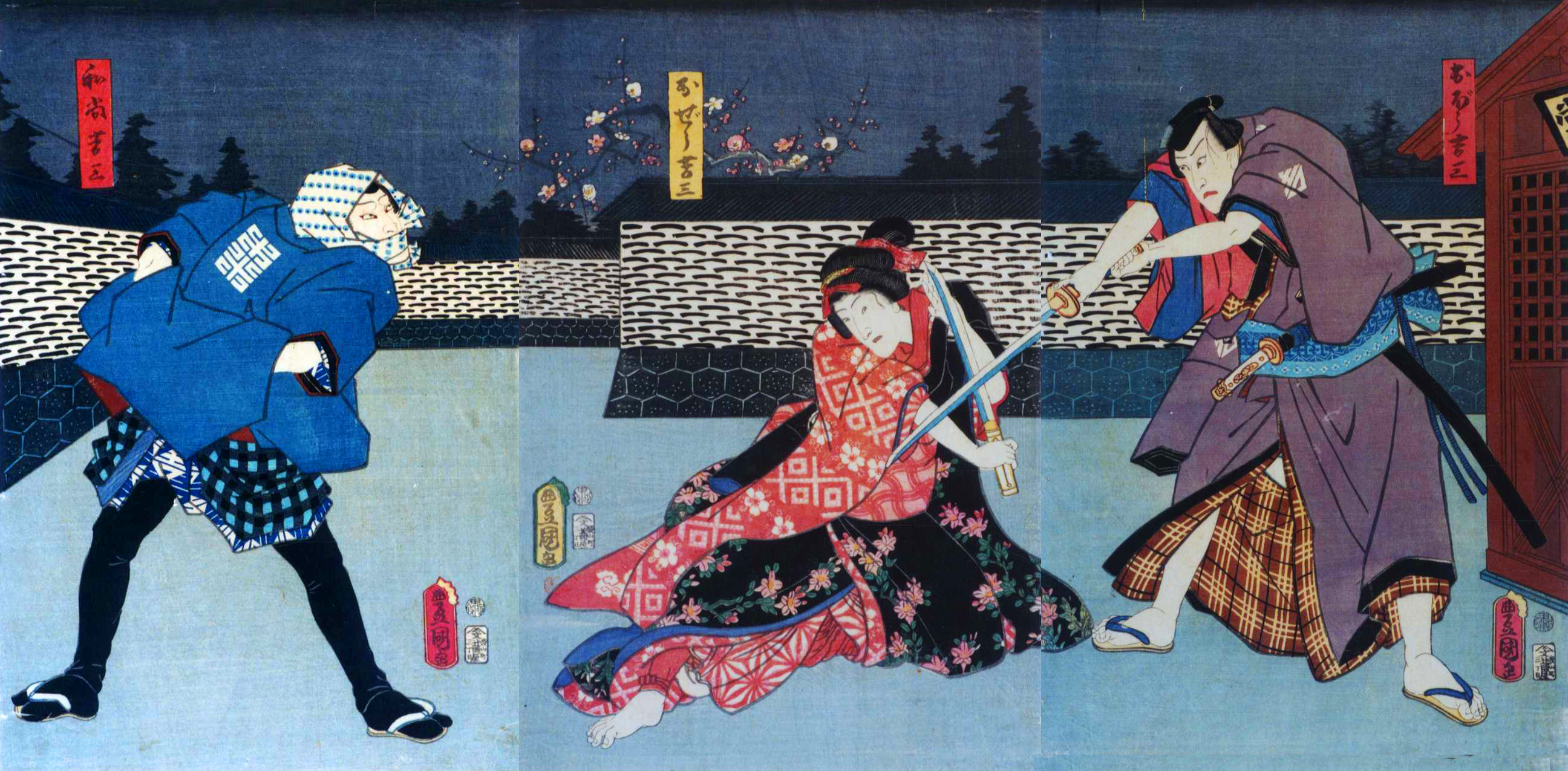 San-nin Kichisa Kuruwa no Hatsu-gai, by Toyokuni Utagawa III, the January 1860 Edo Ichimura-za production. From left, Kodanji Ichikawa IV as Oshō Kichisa, Kumesaburō Iwai III as Ojō Kichisa, Gonjūrō Kawarasaki I as Obō Kichisa.